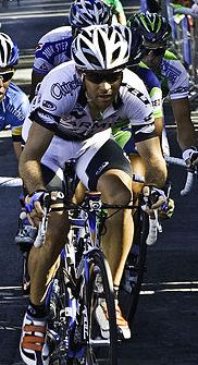 Julian Dean on Stage 13, 2008 Tour de France